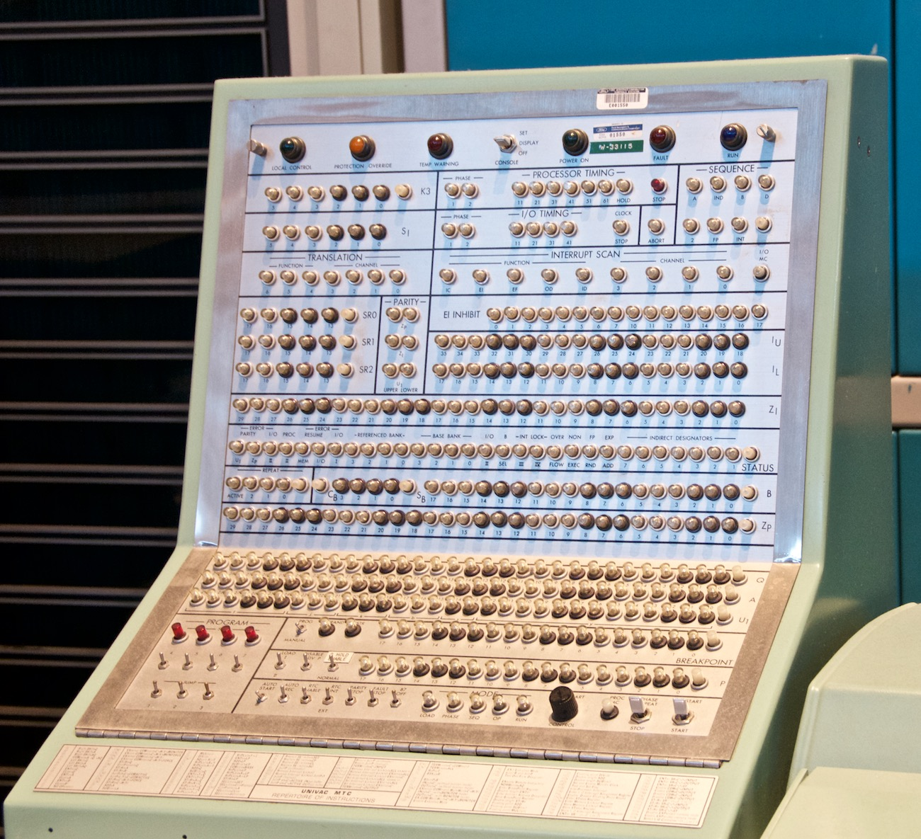 A control panel for a UNIVAC 1232 Computer. This particular computer was used roughly from 1967 to 1990 at the U.S. Air Force's Satellite Control Facility in Sunnyvale, California. This computer is the military version of the UNIVAC 490 general purpose commercial computer. Seen at the Smithsonian National Air and Space Museum Udvar-Hazy Center.